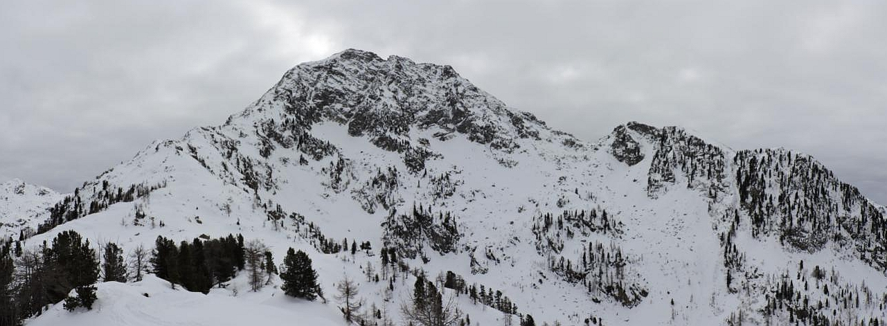 Mont Mars from Mont-Leretta (Italy)